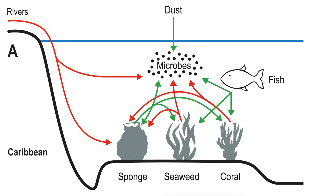 Diagram of vicious circle hypothesis